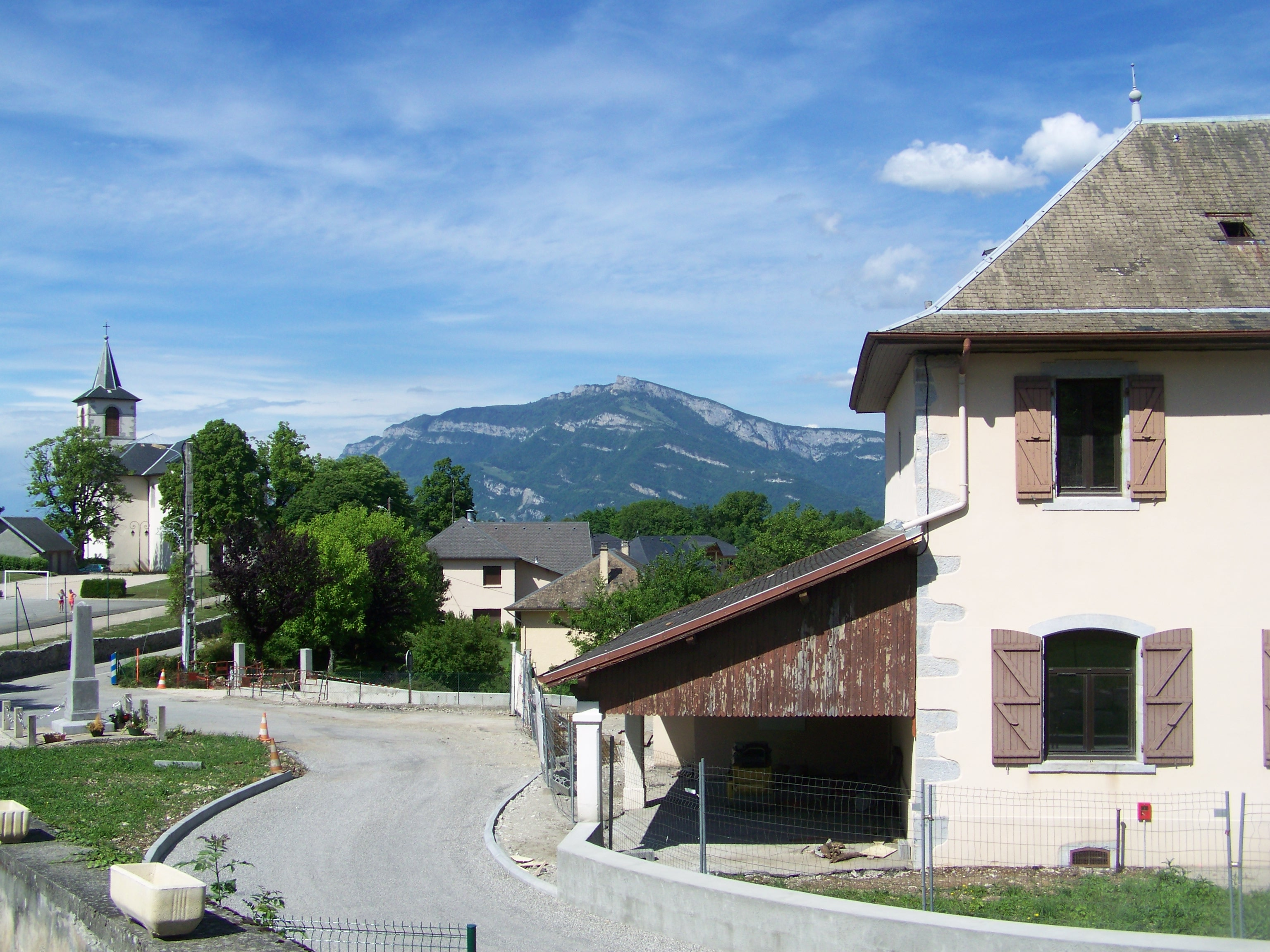 Village center, church and city hall (right) of Montagnole near Chambéry in Savoie (France).